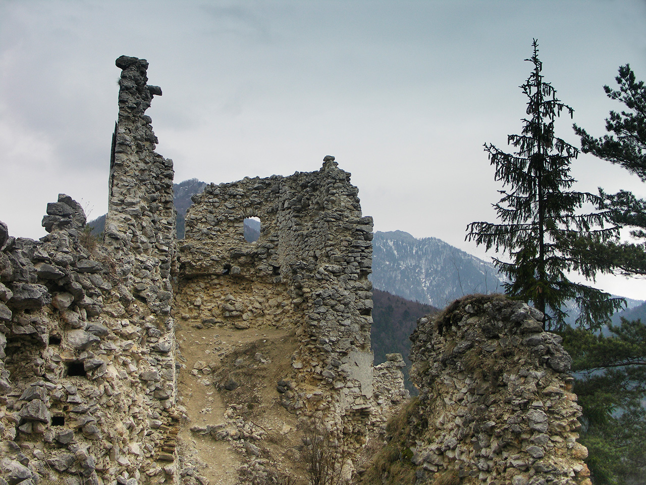 Ruins of the Blatnica Castle, Slovakia This medium shows the protected monument with the number 506-534/1 in the Slovak Republic.